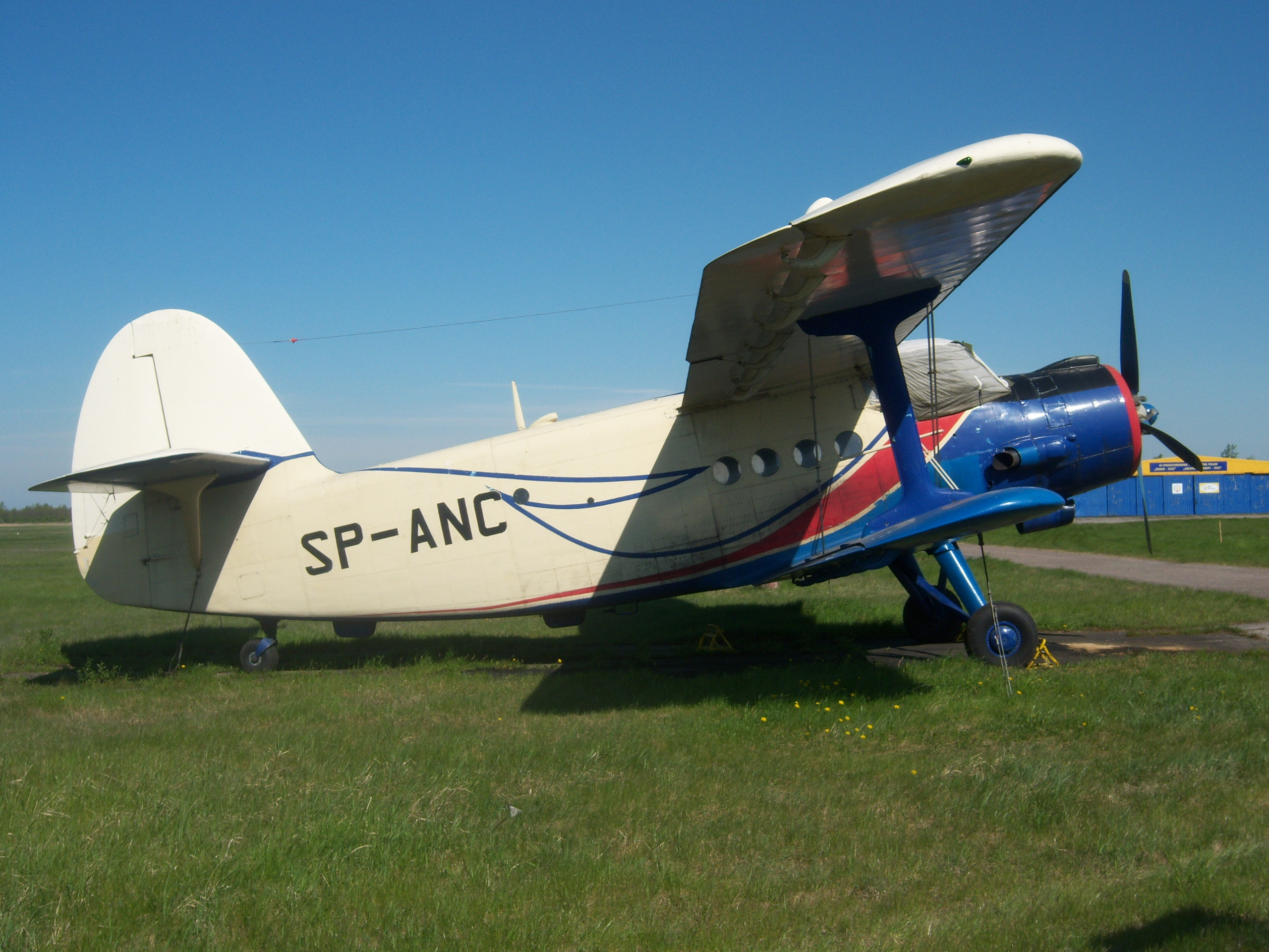 Antonov An-2 on Kazimierz Biskupi Airport - side